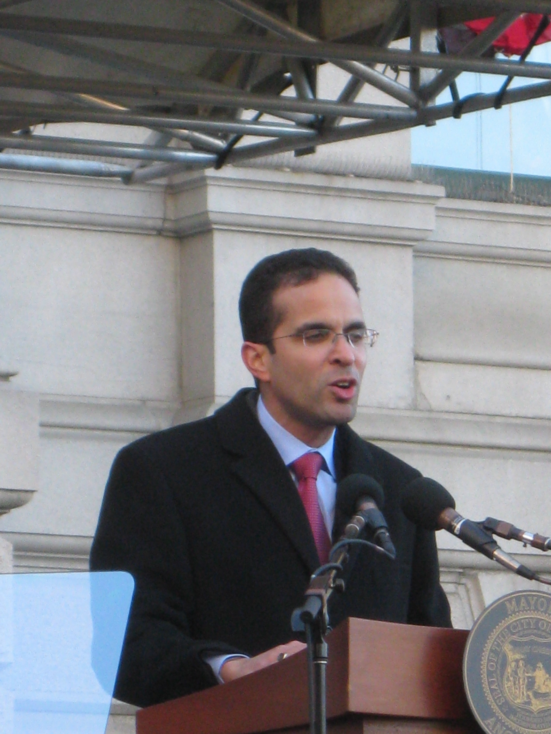 Inauguration of Providence Mayor Angel Taveras